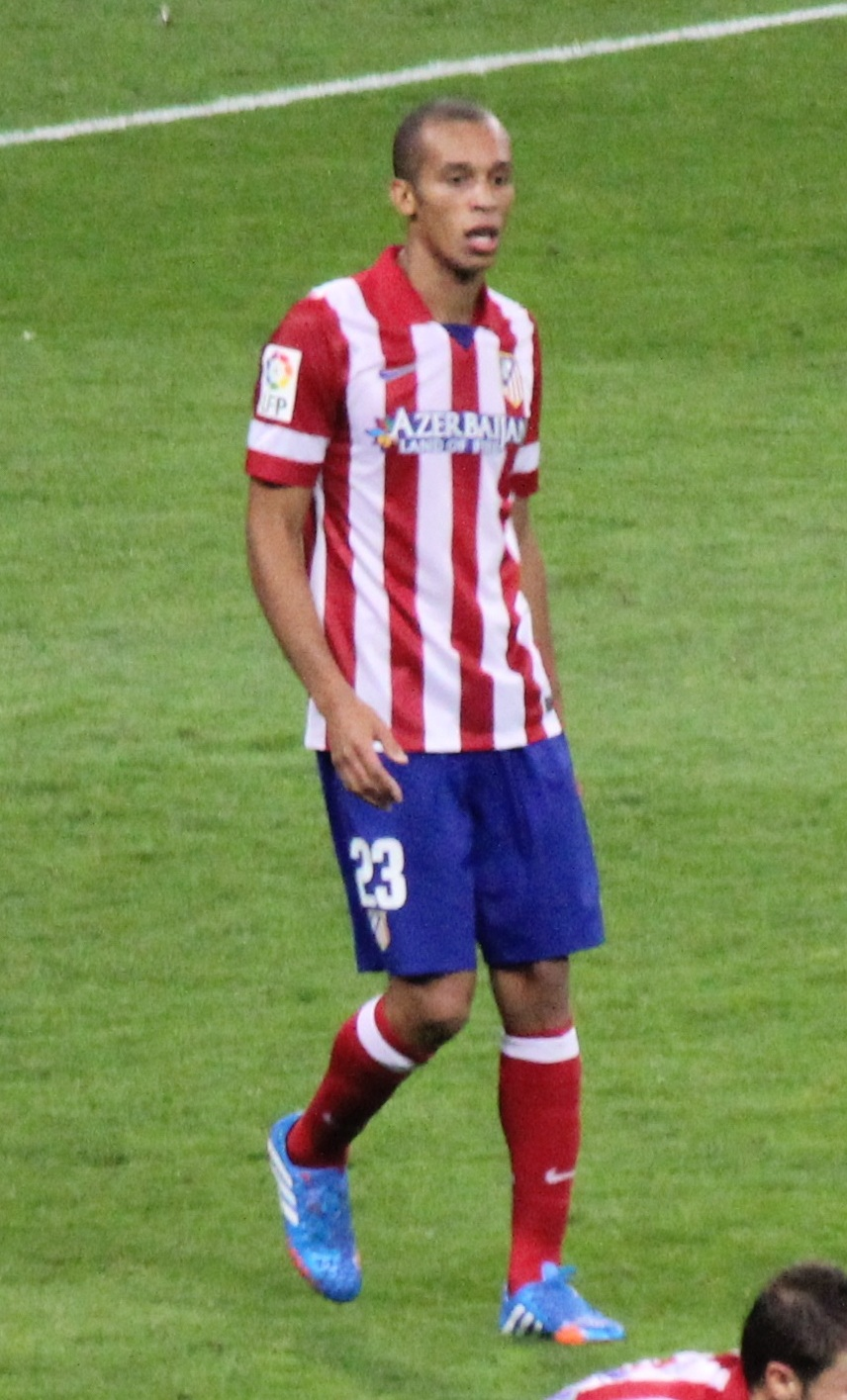 Isco playing for Real Madrid against Atlético Madrid on 28 September 2012 at a home game for Real Madrid.